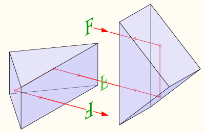 Combination of porro prisms used in binoculars